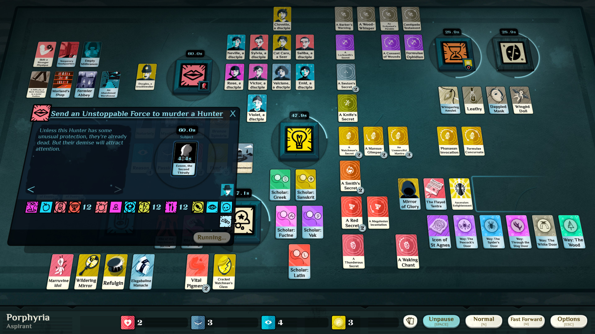 Screenshot of the simulation video game Cultist Simulator, towards the latter stages of the game. On display are all of the types of cards that are available to players: Lore cards (left-center in a vertical line) Gate cards (bottom right, in a horizontal line Cultist cards (top center) Location cards, job cards, and attribute cards (top left) Hunter/rival cards (Douglas, a troublemaker) Tool cards (bottom left and also top right) Language cards (bottom center, below the light bulb) Book cards (The Flayed Tantra) Cult and plot cards (Mirror of Glory and Ascention: Enlightenment) Verbs (the square icons with timers) An action in progress (summoned creature targeting a hunter)